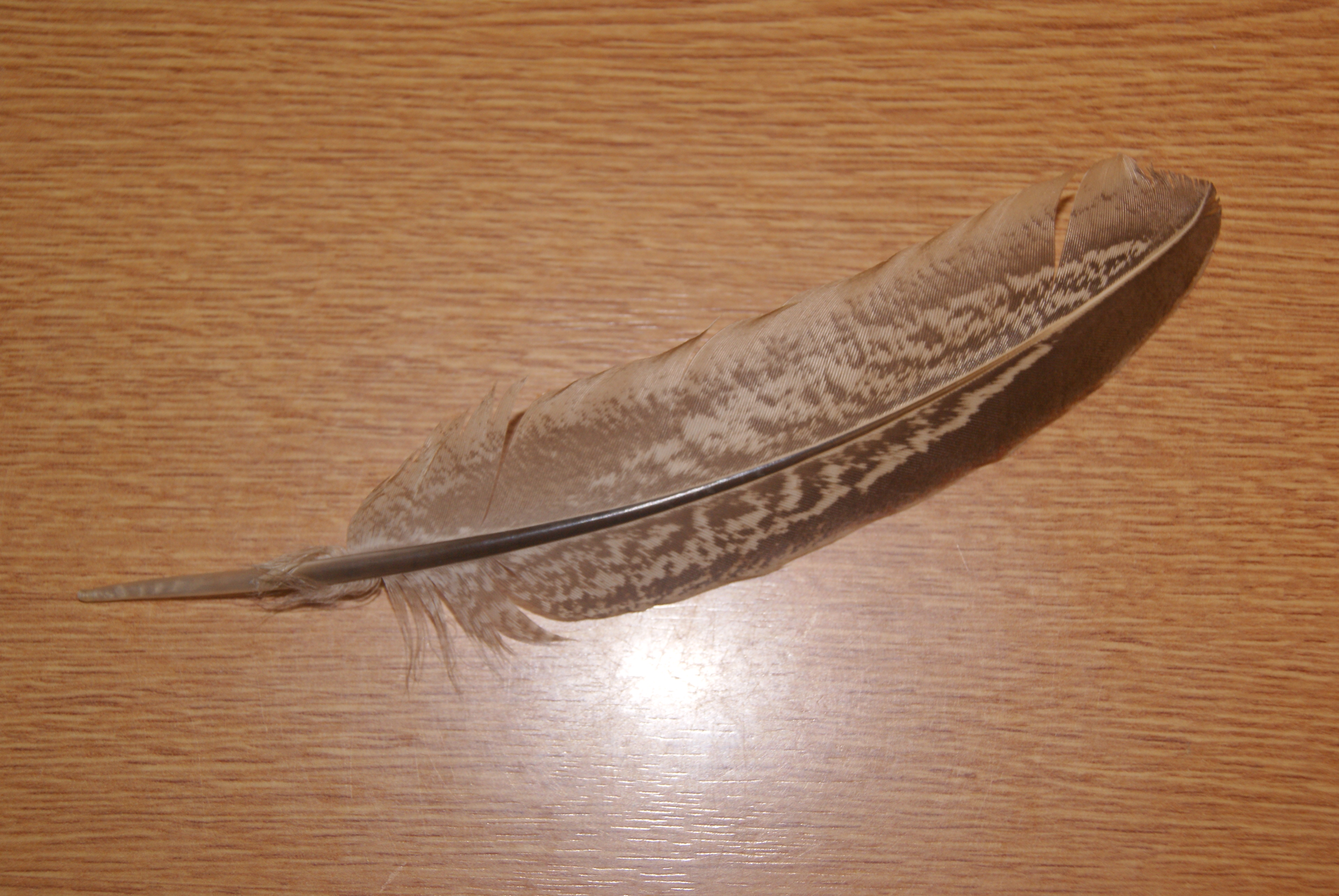 This is a picture of a tawney owl's secondary feather